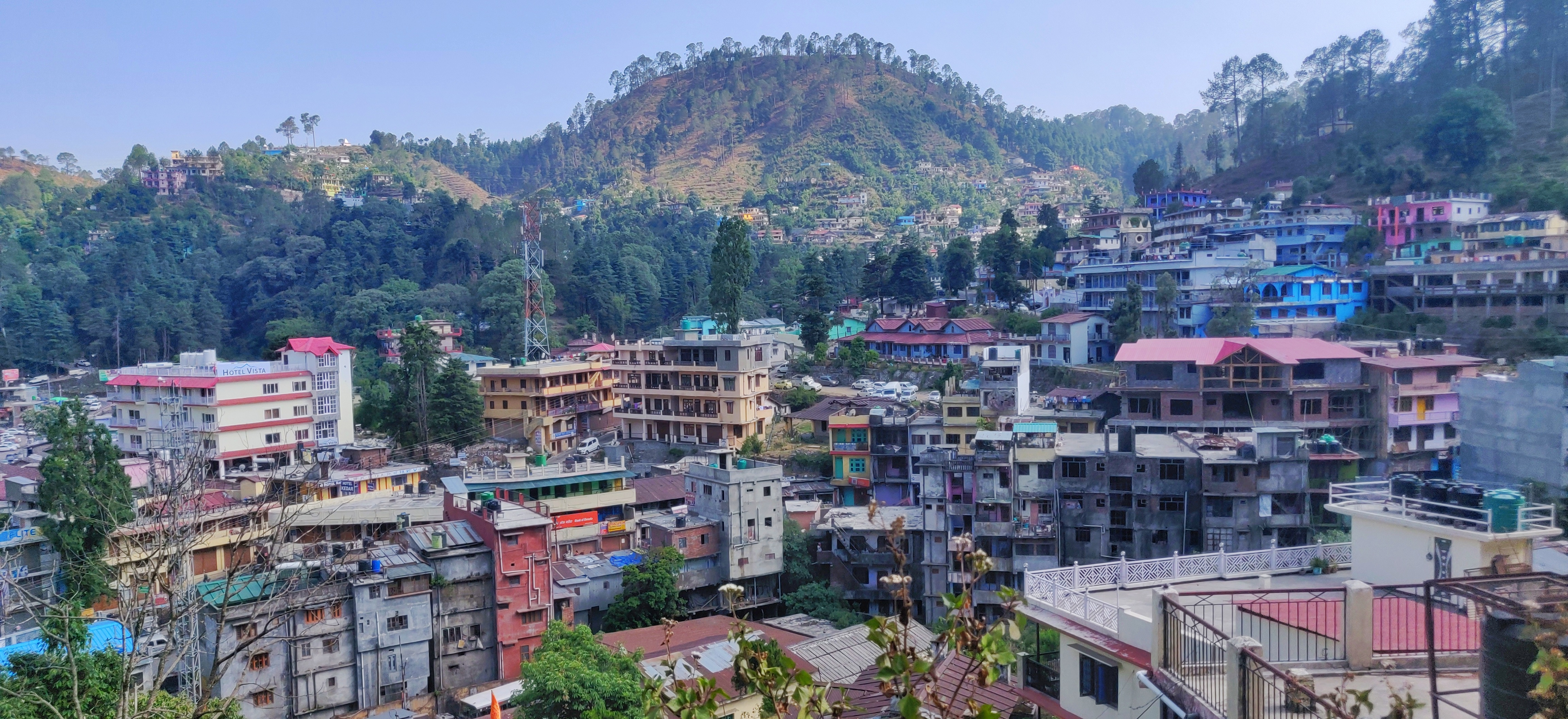 Bhowali City 02